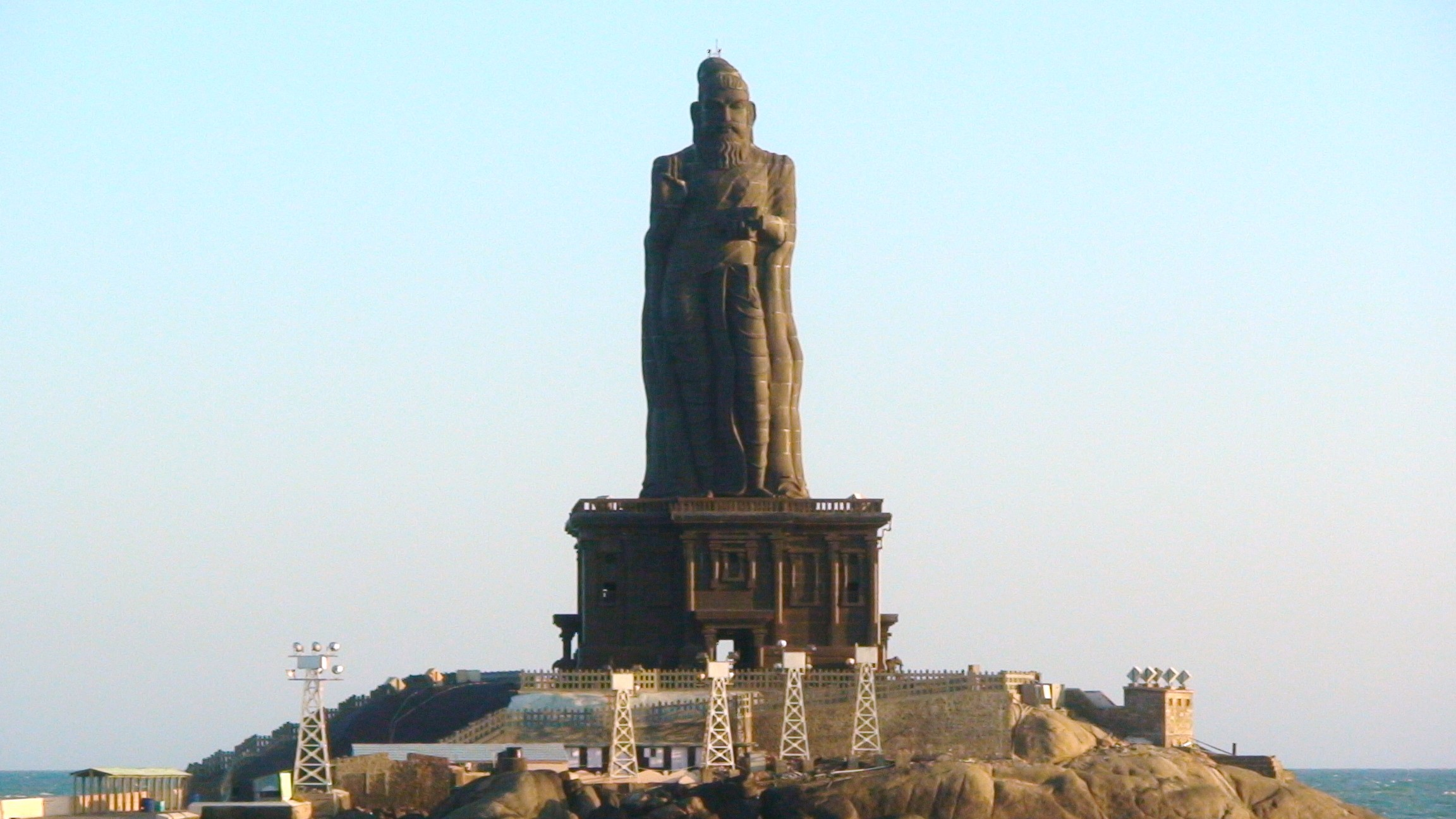 133 feet Thiruvalluvar statue in Kanyakumari